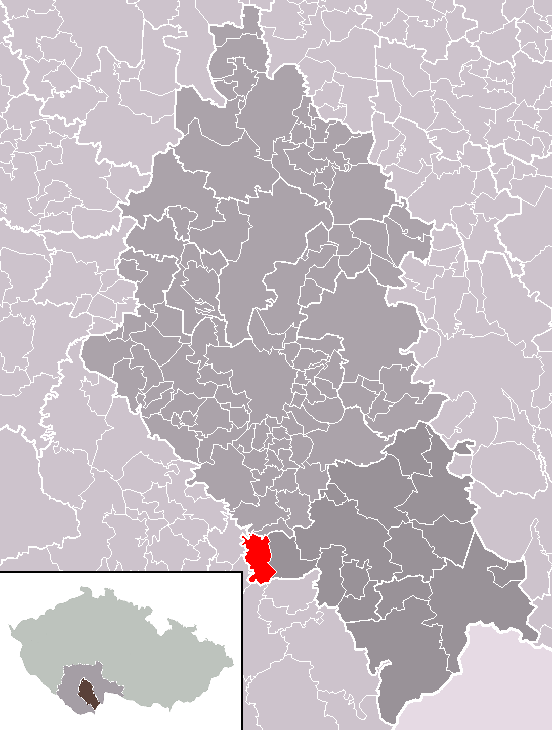 Location of Svatý Jan nad Malší municipality within České Budějovice District and administrative area of Trhové Sviny as a Municipality with Extended Competence.